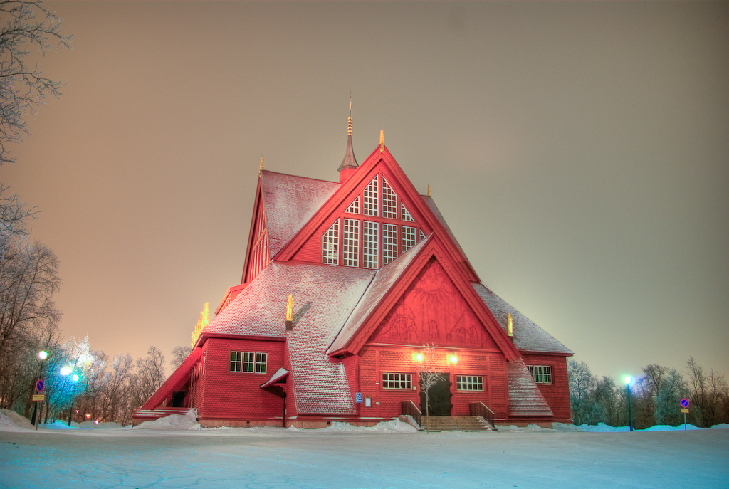 The church of Kiruna in winter